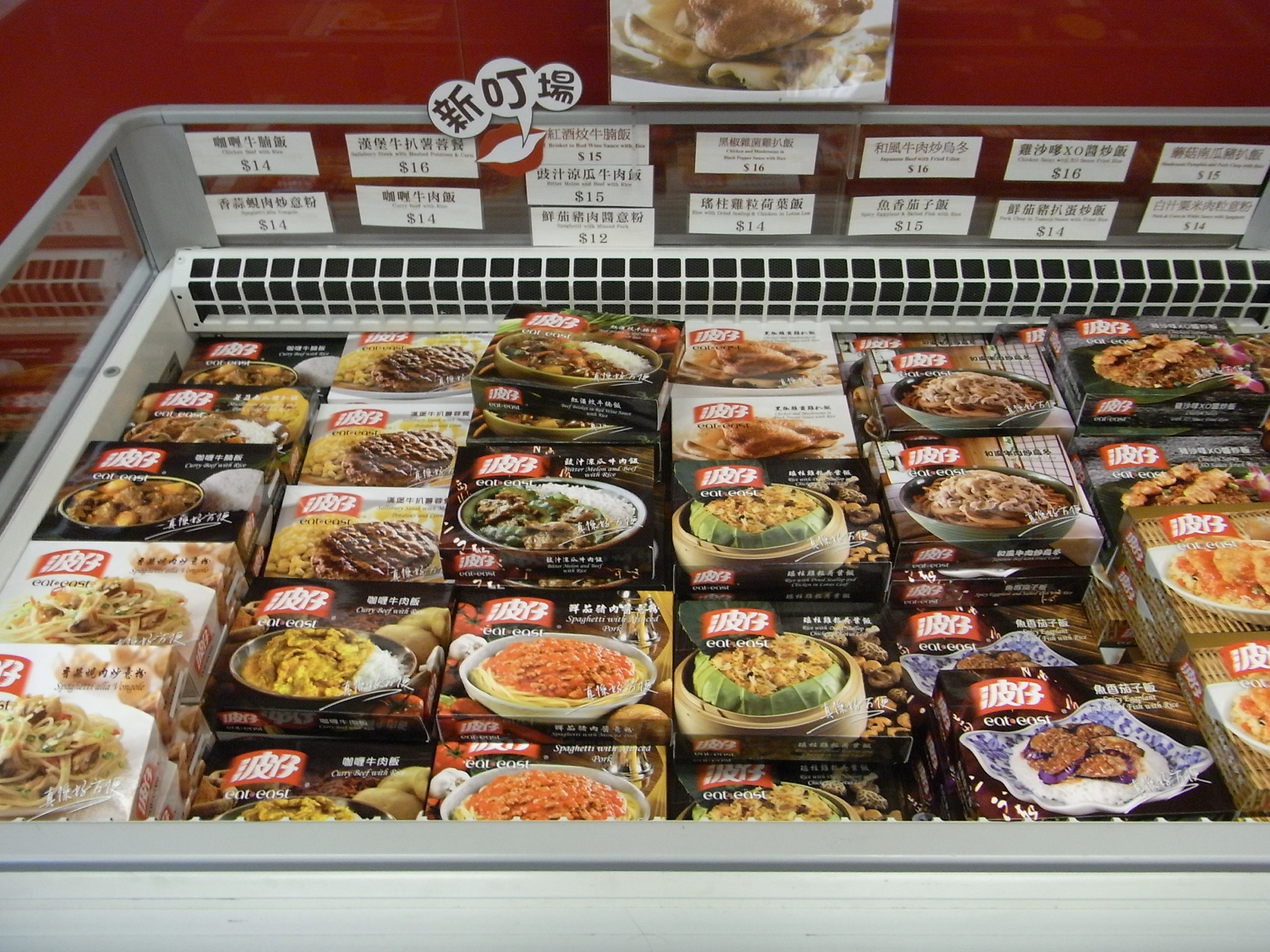 長沙灣zh:幸福邨 幸福商場 波仔飯